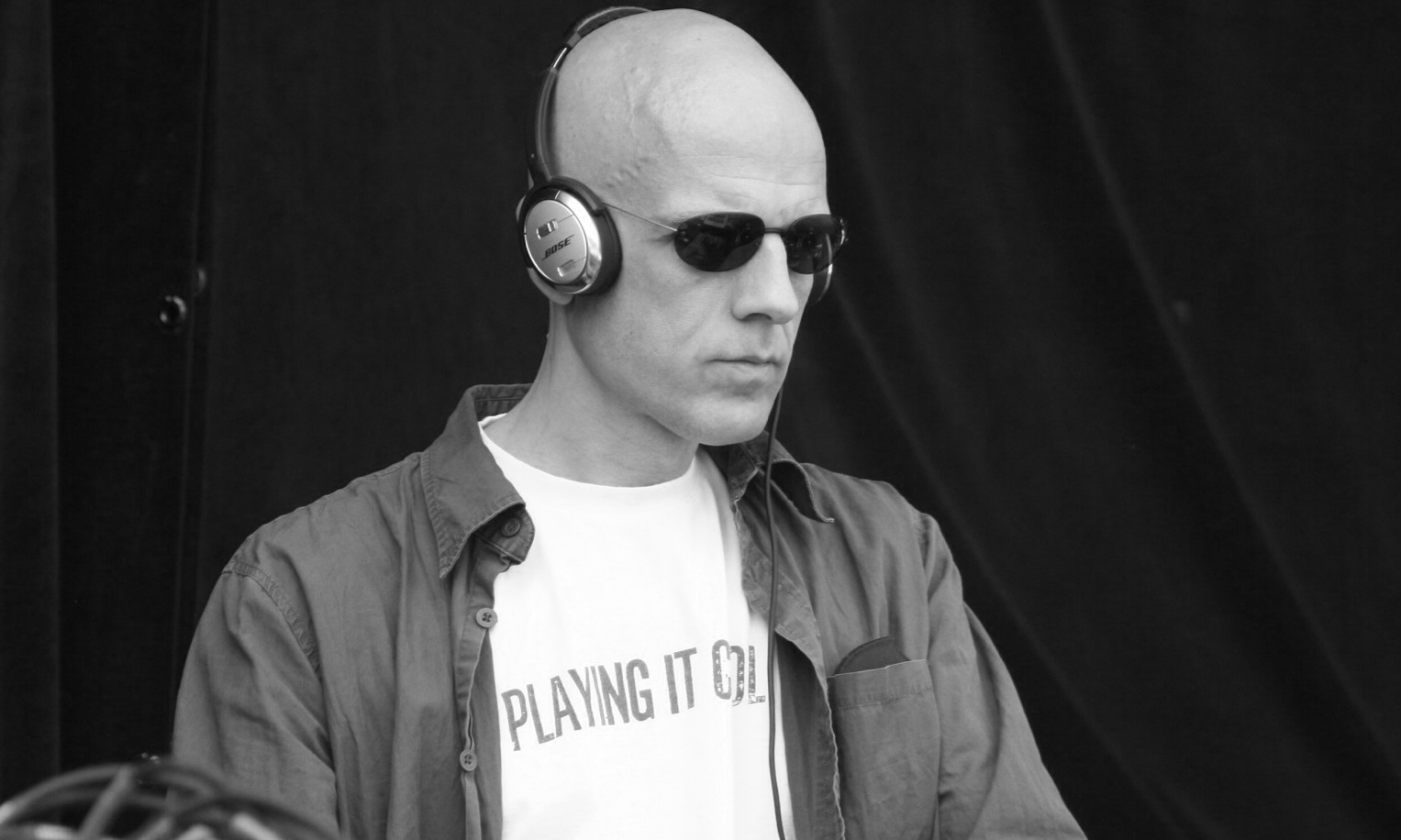 German musician Mark Ernestus